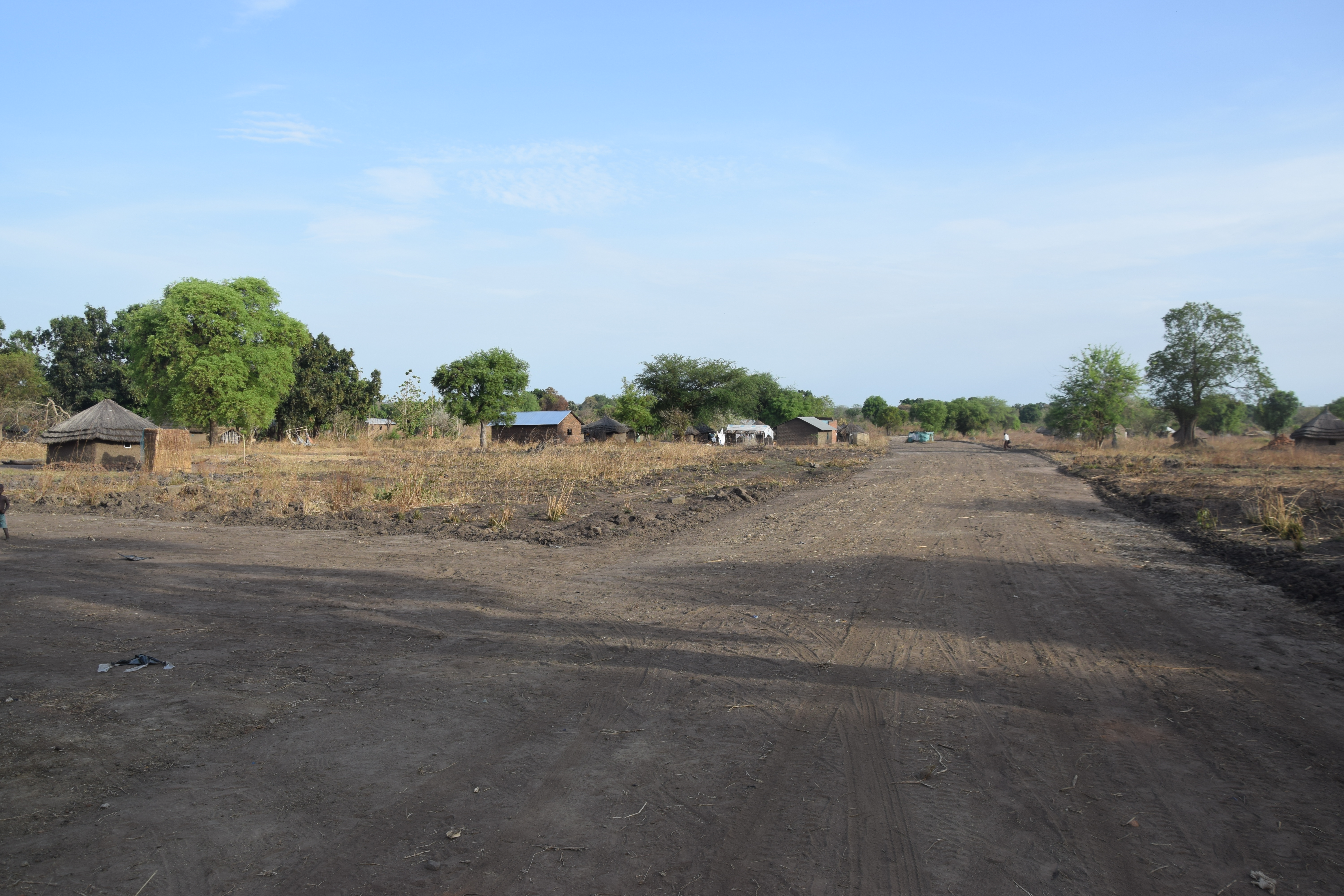 A Road connects village named Hai Tiriri with Mundri-Maridi highway. It developed health care facility, Living standard & Communication system of the village.